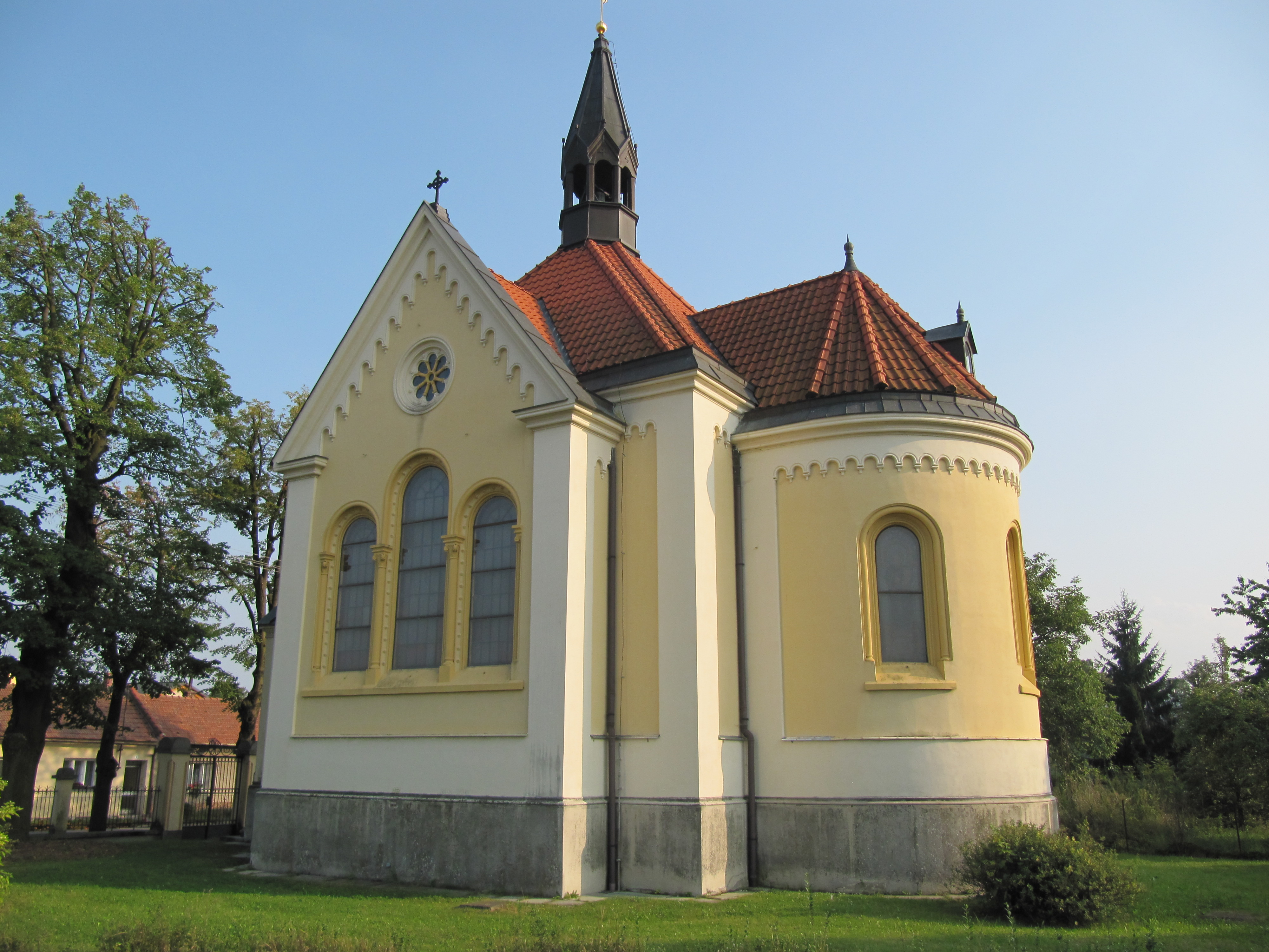 Olomouc, Czech Republic, part Topolany. Chapel of the Divine Heart of Jesus.